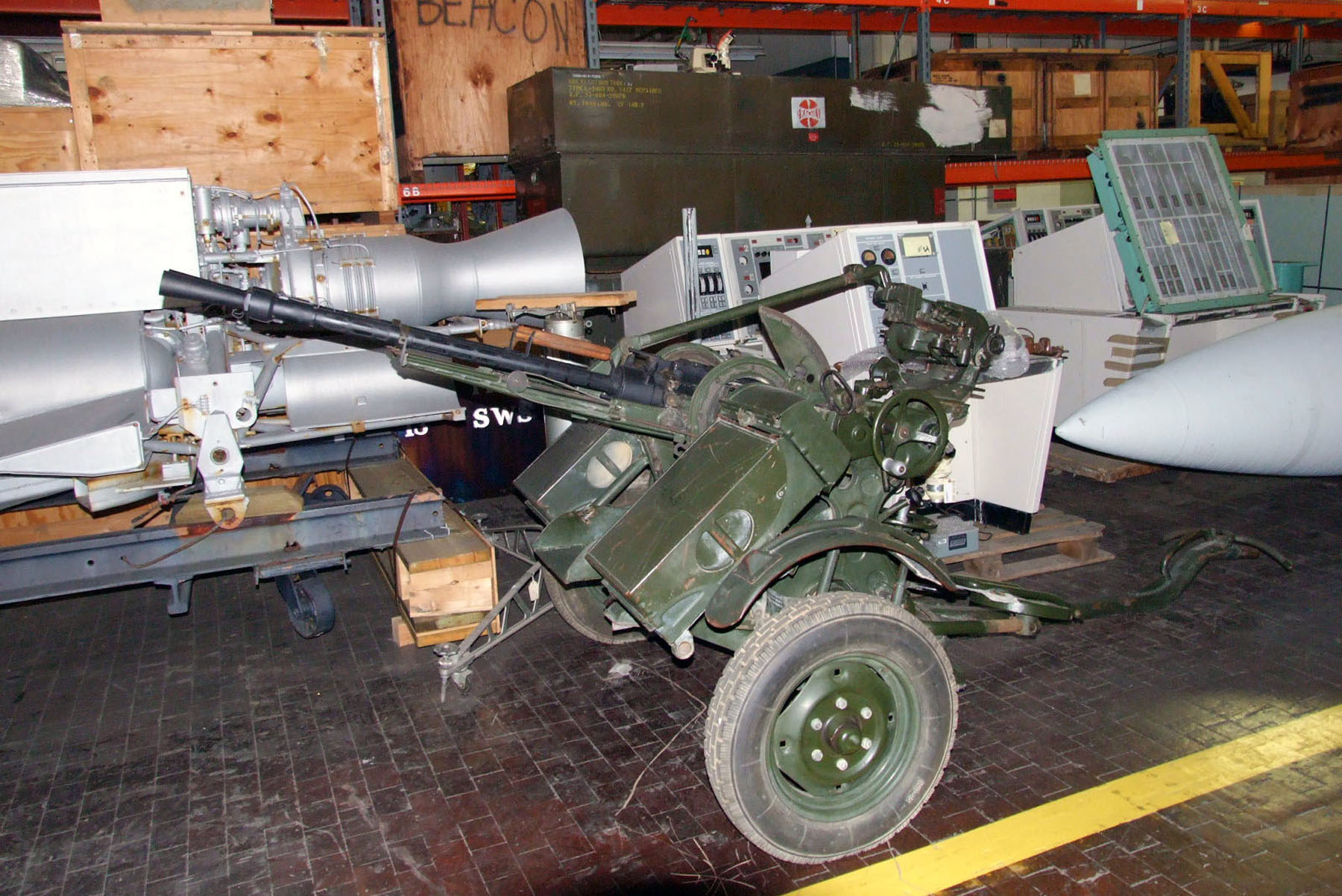 This Soviet-built ZPU-2 14.5mm anti-aircraft gun was captured by Allied forces during Operation Desert Storm. It is composed of two KPV 14.5mm heavy machine guns mounted on a two-wheeled carriage for mobility. Each gun is capable of firing 600 rounds per minute. Note the battle damage bullet holes on the lower part of the gun mount.